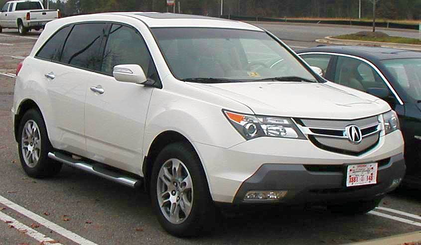 2007 Acura MDX photographed in USA.